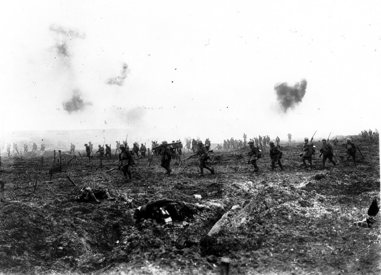 29th Infantry Battalion advancing over "No Man's Land" through the German barbed wire and heavy fire during the battle of Vimy Ridge.